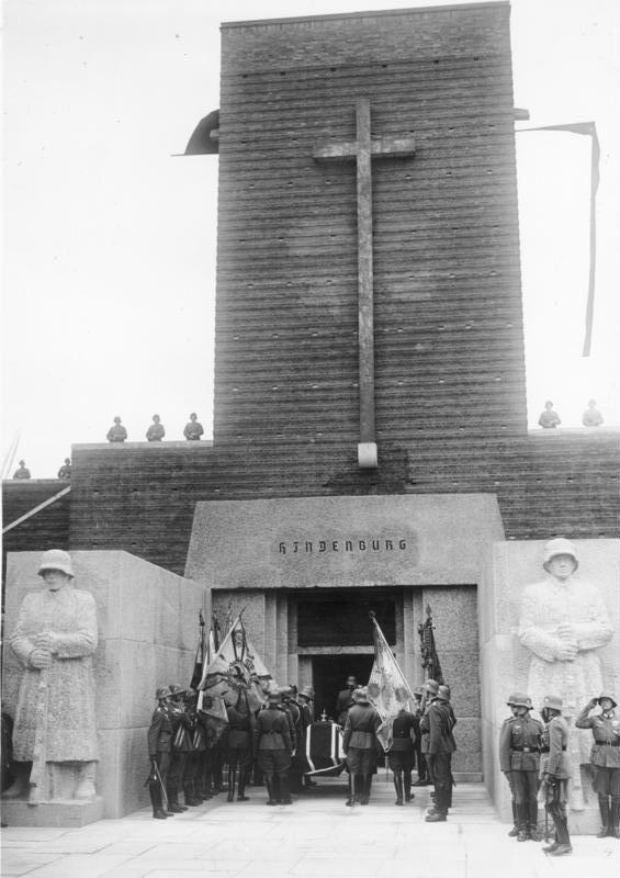 The ceremonial transfer of Paul von Hindenburg's body into the honour yard (org. Ehrenhof) of the Tannenberg Memorial.